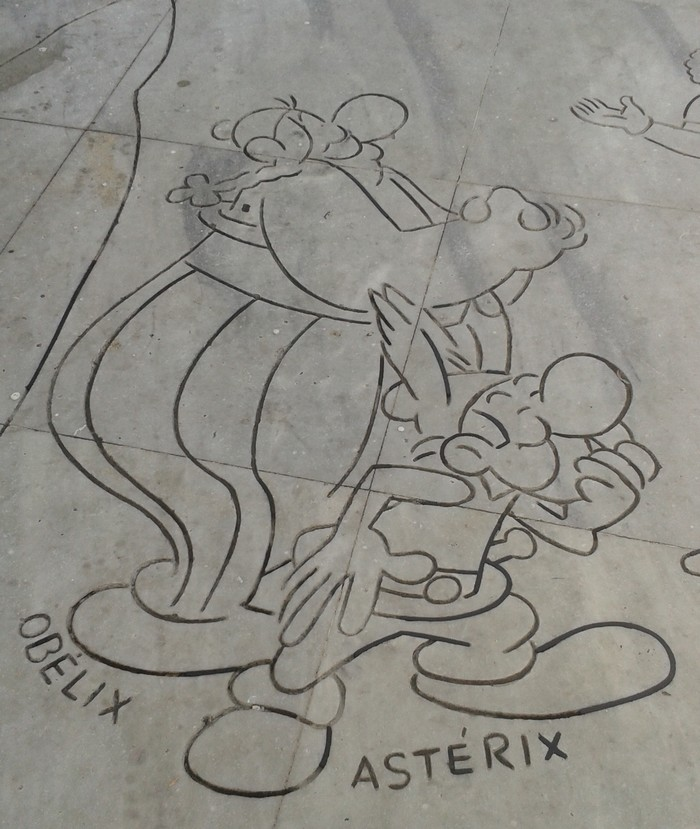 Permanent engraving of Asterix and Obelix on the monument in Plaza del Humor, A Coruña, Spain